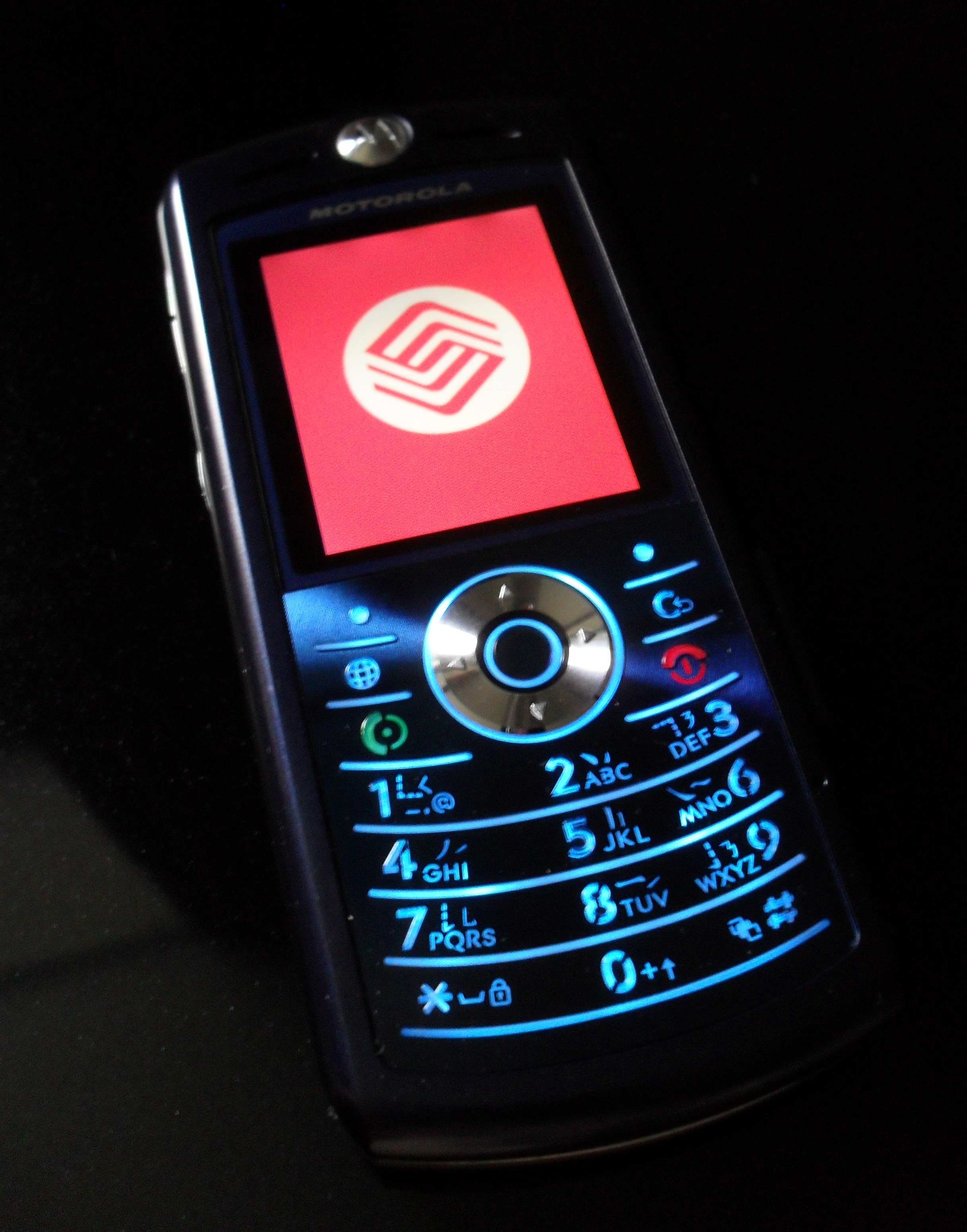 Motorola L71 (China Mobile customised model)